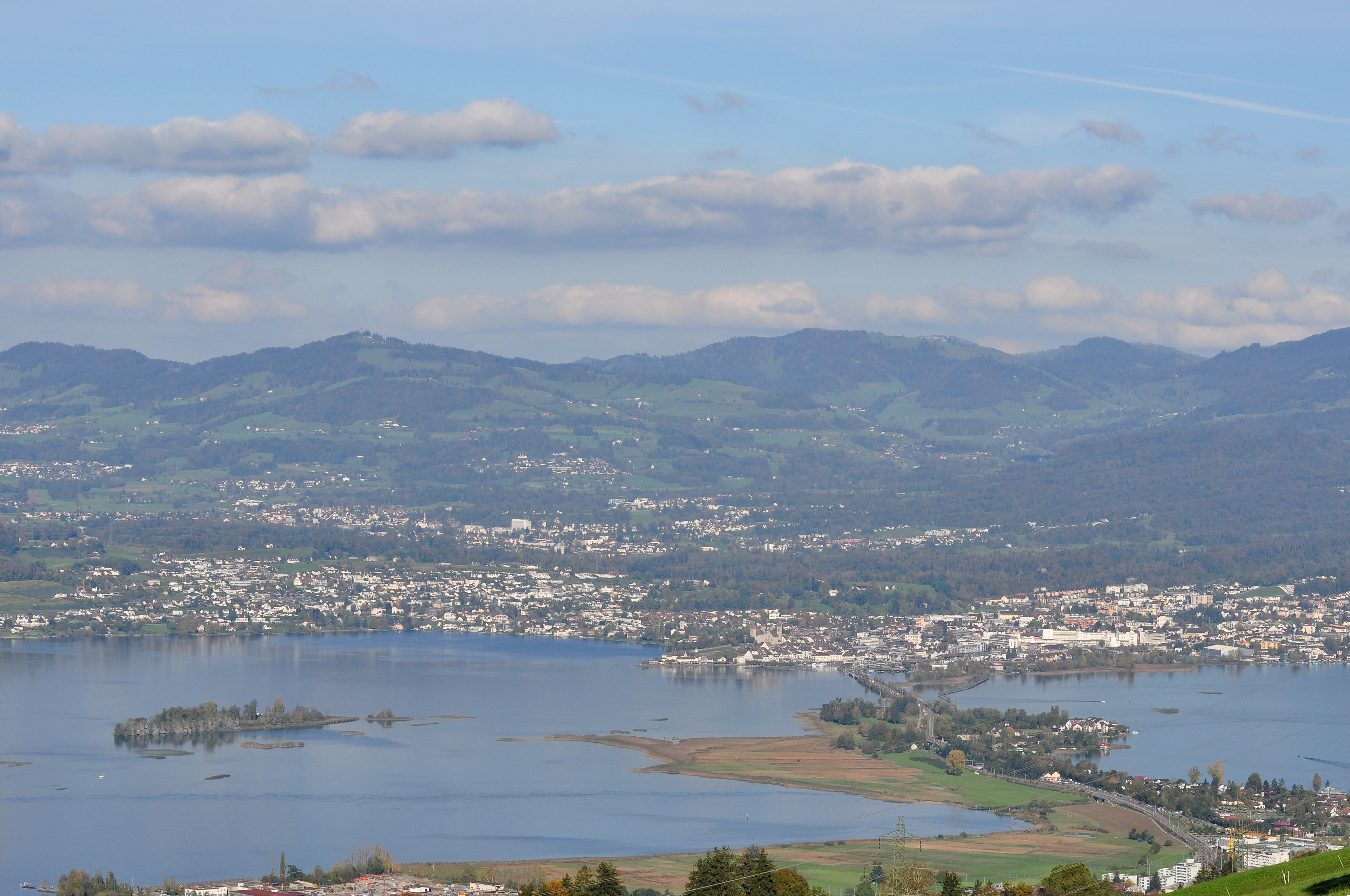 View from the Etzel mountain in Switzerland, focus on Rapperswil-Jona – Kempraten and Rapperswil to the left, Jona to the right) : Freienbach, Frauenwinkel protected area, Hurden, Seedamm and Holzbrücke in the foreground, Zürichsee and Lützelau island to the left, Obersee to the right, Rüti in the near and Bachtel mountain and Tösstal (Zürcher Oberland) in the far background.